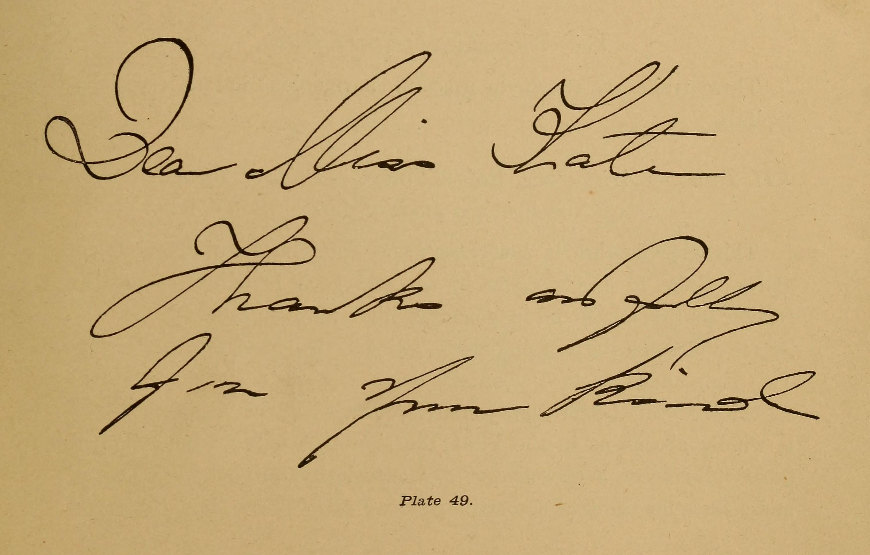 Title: Talks on graphology, the art of knowing character through handwriting Year: 1892 (1890s) Authors: Robinson, Helen Lamson Robinson, M. L., joint author Subjects: Graphology Publisher: Boston, Lee and Shepard Text Appearing Before Image: Plate 48. DISSECTION AND ANALYSIS 81 Text Appearing After Image: Plate 49. 82 TALKS ON GRAPHOLOGY V. Spirit. — Fine Feeling, Delicacy. These traits are shown in graceful, harmonious letters, especiallycapitals. VII Tastes. — Aristocratic, Refined Tastes. — Pride of Birth, Taste for a Brilliant Mode of Life. This graphic sign is a curious one. Sometimes social ambitions,and a desire to excel others in wit and good breeding, as well asstation in life, are found in generous, high, pure natures. Notice theIf s in Plate 50 ; the first pinnacle is twice the height of those following.This sign, added to the egotistic curl, denotes a haughty nature : I think Myself better than you are. But when the egotistic curl is wholly absent, as in the Plate, the sign is merely an indication ofgreat self-respect, a consciousness of superiority, without weak vanity,and a taste for brilliant associations. DISSECTION AND ANALYSIS 83 VIII. Passioiis. There are, of course, good as well as bad passions. Any vice orvirtue carried to excess may become a passion. Take, f